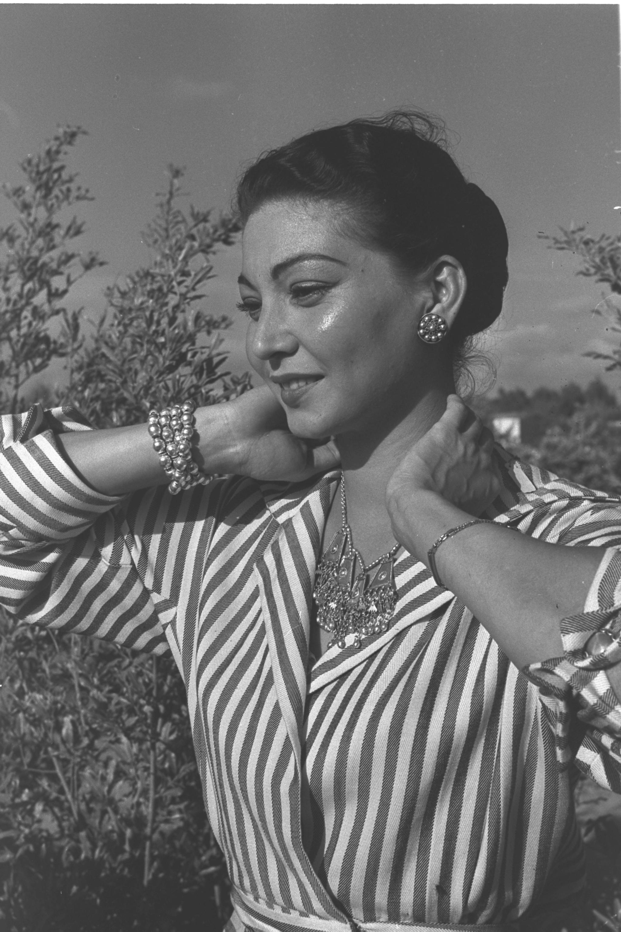 A model wears a silver necklace made by an immigrant from Yemen.